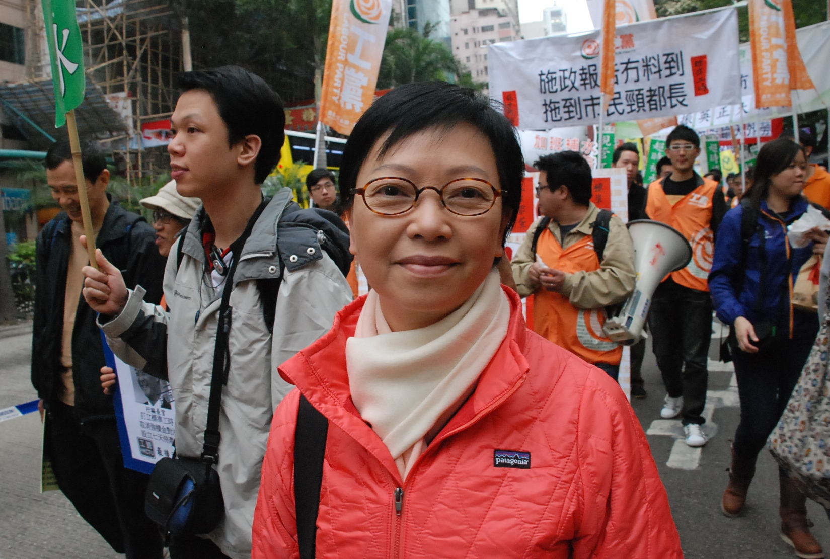 Cyd Ho at the anti-government protest in January 2013.